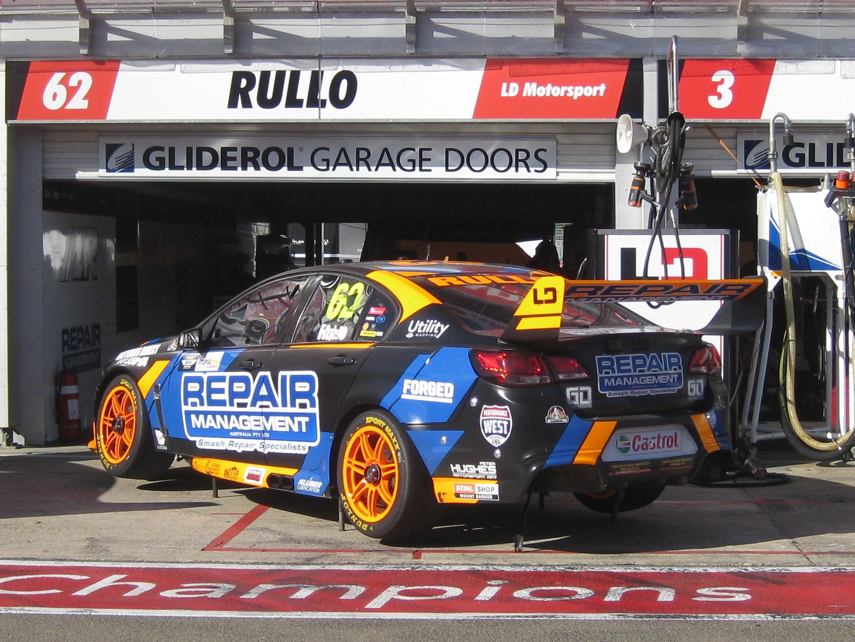 The Holden Commodore VF of Lucas Dumbrell Motorsport, as driven by Alex Rullo at the 2017 Clipsal 500 Adelaide